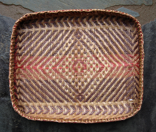 Natural dyed, rivercane basket in "Noonday Sun" pattern, by Peggy Brennan (Cherokee Nation)